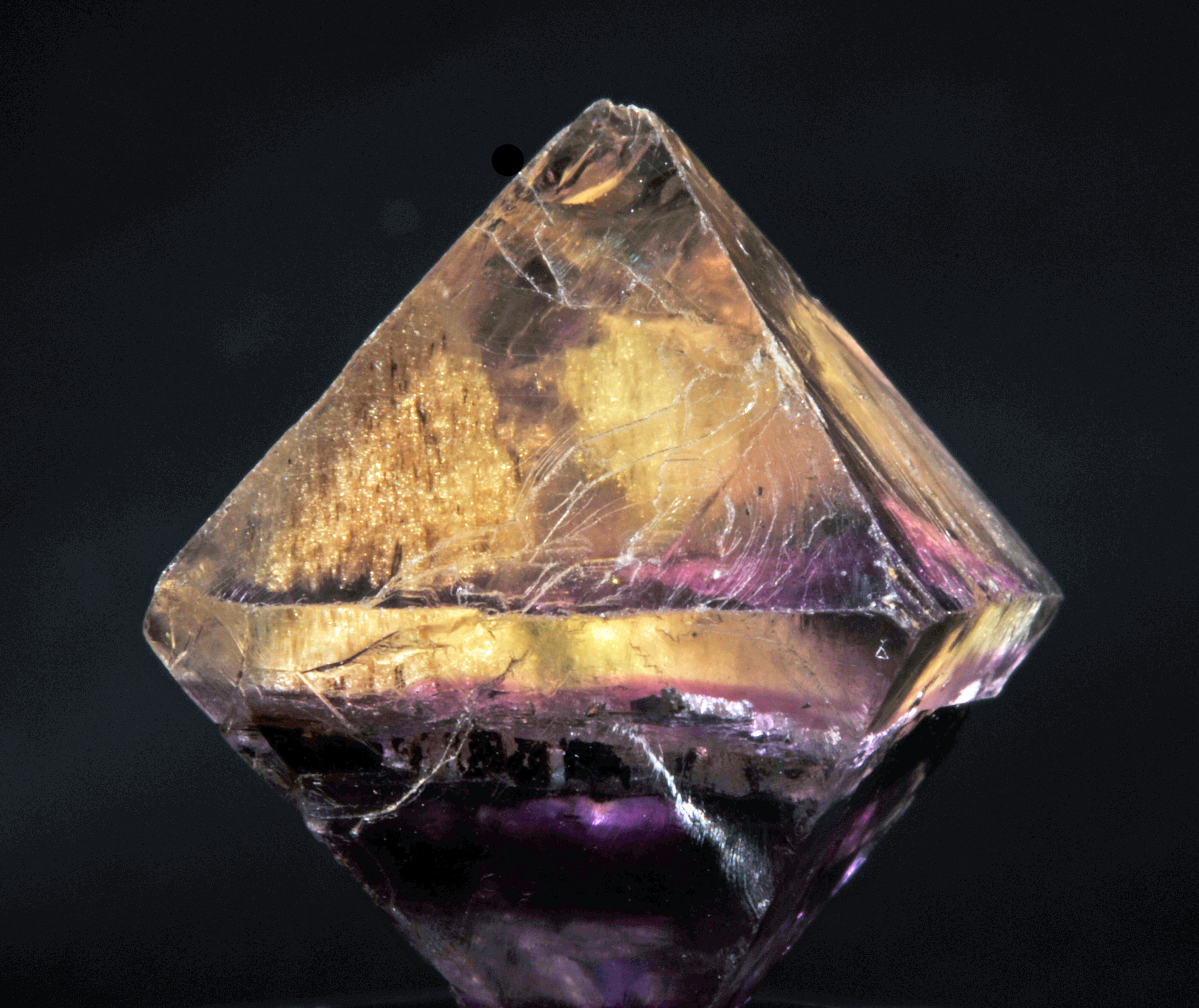 crystal of fluorite : Mexico